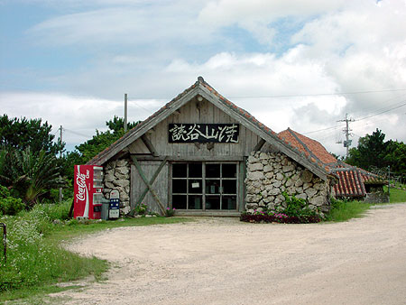 Yomitan Yachimun no Sato (Yomitan Pottery Village)